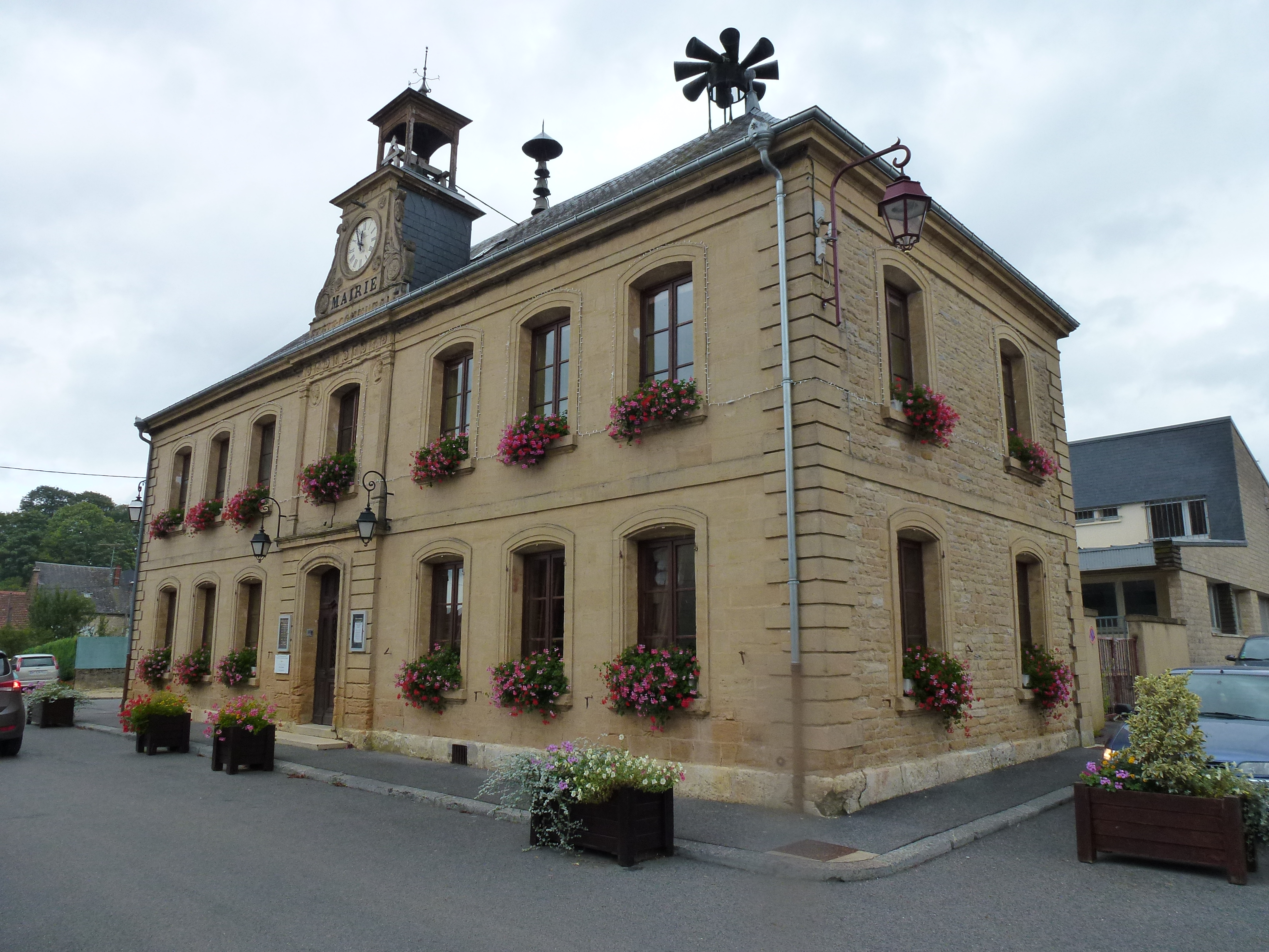 Poix-Terron (Ardennes) mairie